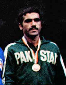 Boxing 71 kg podium, 1974 Asian Games in Tehran. Siraj-ud-Din